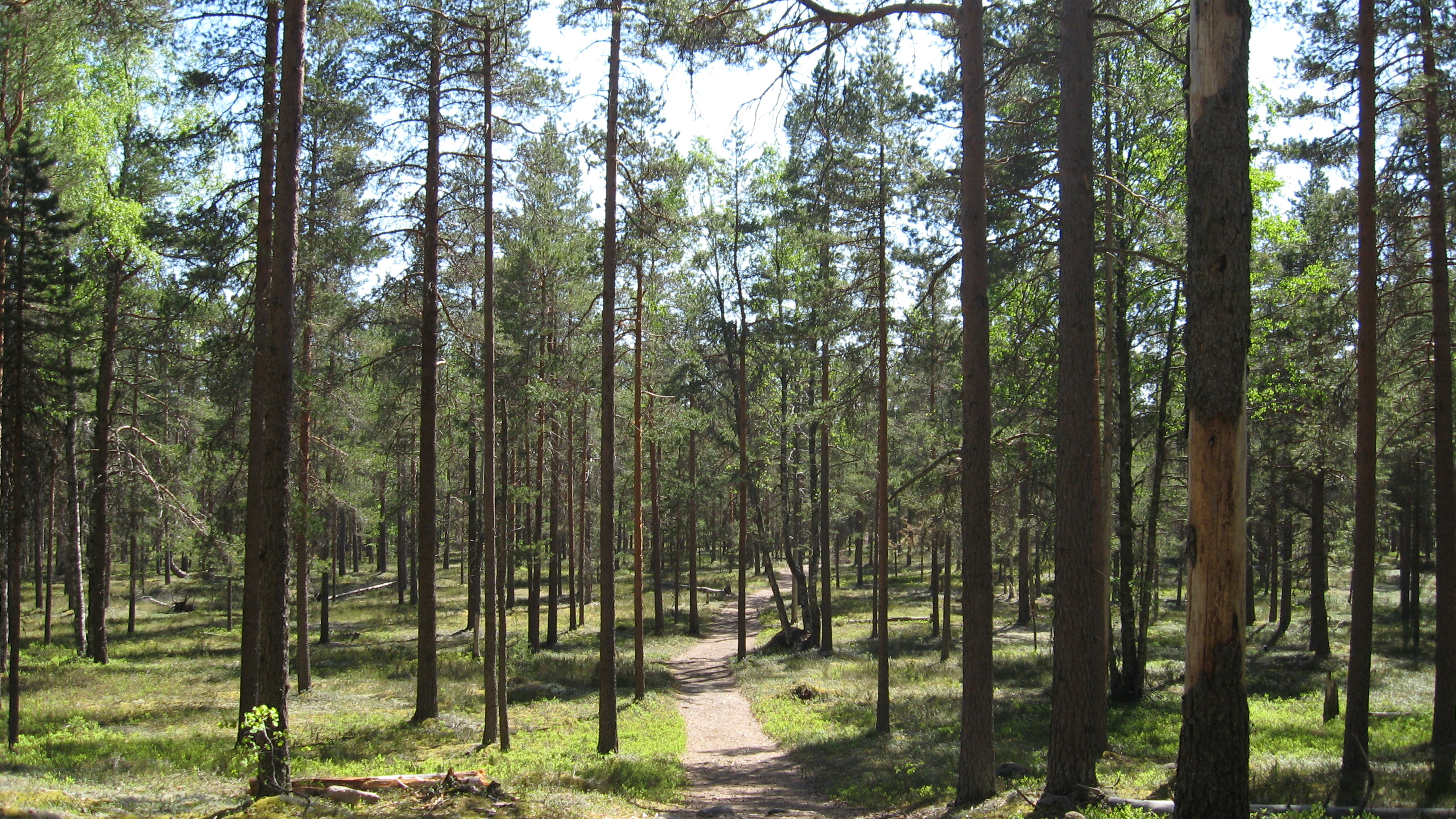 Forest in the Lauhanvuori National Park, Finland.